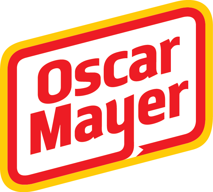 Oscar Mayer's primary logo which has been in use since 2011. A very similar logo with a slightly different font was used prior to the change.